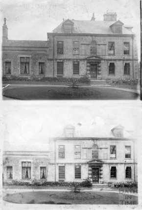 South view of Eagle House, Batheaston 1890: Photograph by Colonel Blathwayt. He was the father of Mary Blathwayt and they lived at Eagle House in Somerset.